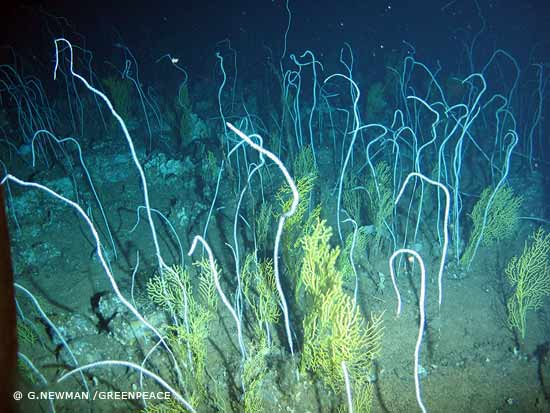 Condor Seamount Corals